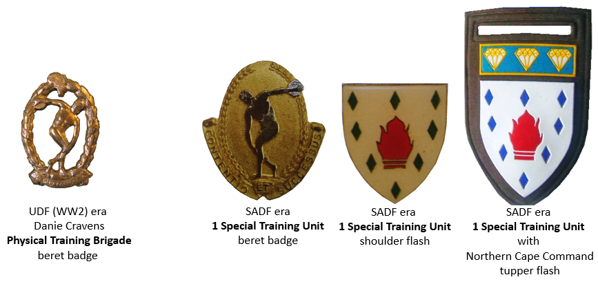 SADF 1 Special Training Unit insignia